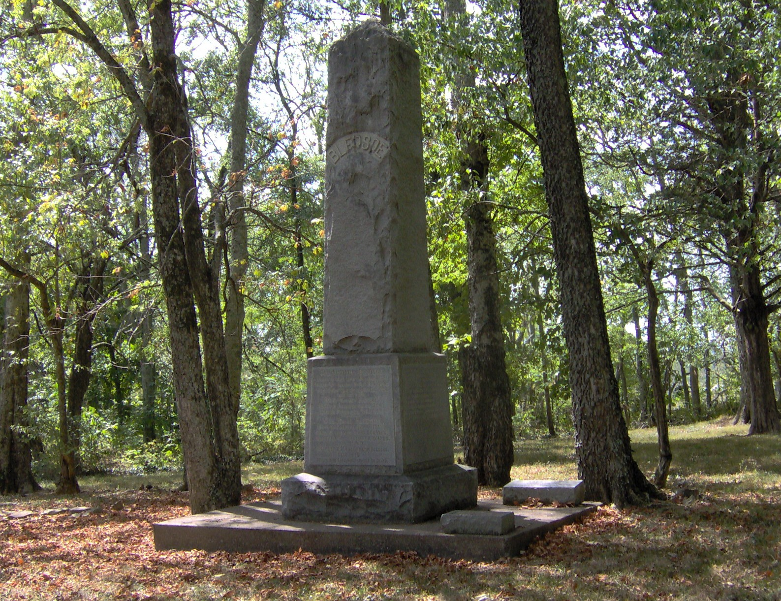 Monument dedicated to Anthony Bledsoe (1733-1788) and Isaac Bledsoe (c. 1735-1793) at Bledsoe's Fort Historical Park in Sumner County, Tennessee, in the southeastern United States. The monument, located at the back of Belote Cemetery, was erected by the Bledsoes' descendants in 1908.